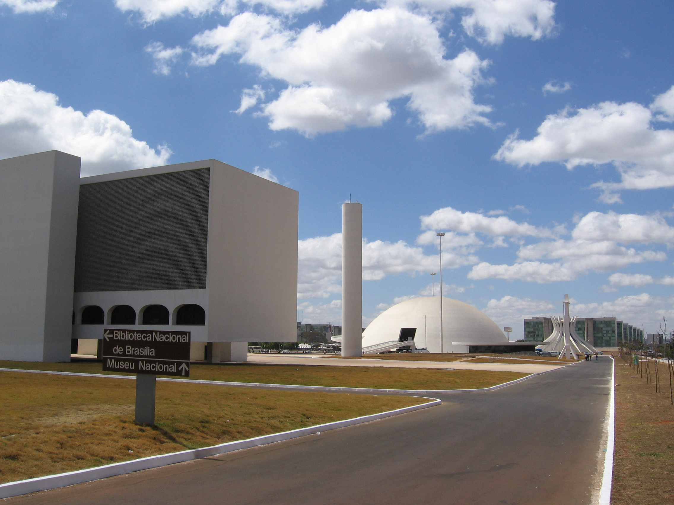 Library on the left, dome shaped museum on the right.